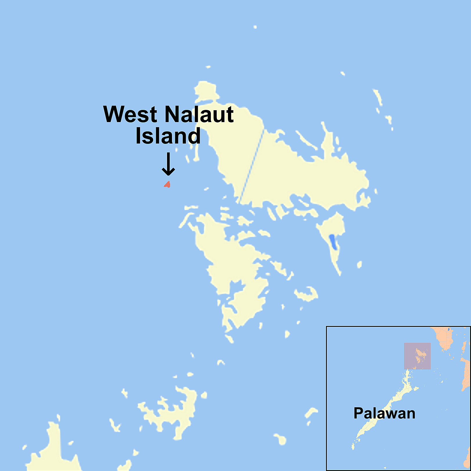 Towns and cities of the Philippines Tagalog: Mga bayan at lungsod ng Pilipinas